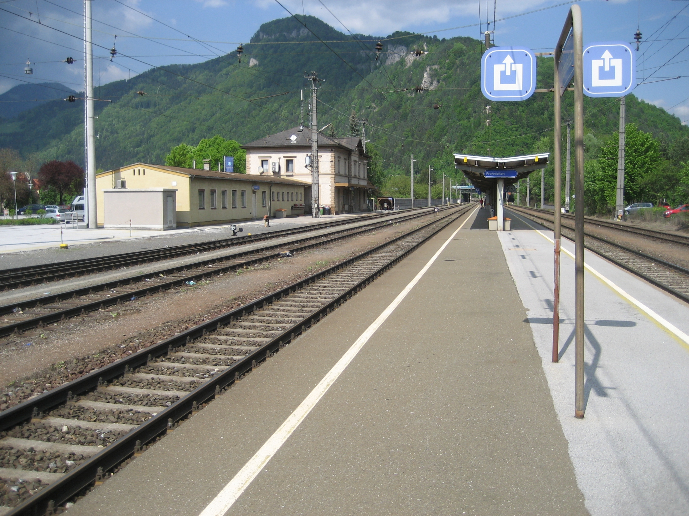 train station Frohnleiten in Styria